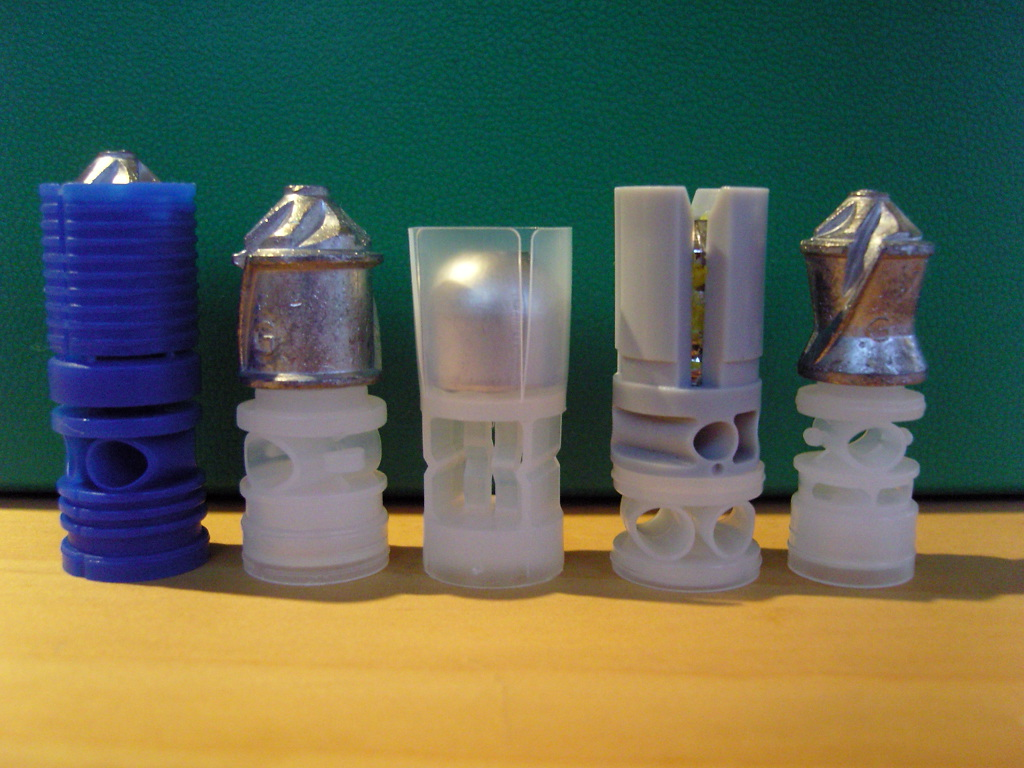 Plumbata slugs - From left to right; 12 ga 7/8 oz Blue Force, 12 ga 1-1/8 oz Dangerous Game Slug, 1 oz Lee home cast, BPI 12 ga sabot with 350 grain .50 cal bullet, 20 ga 1 oz Dangerous Game Slug